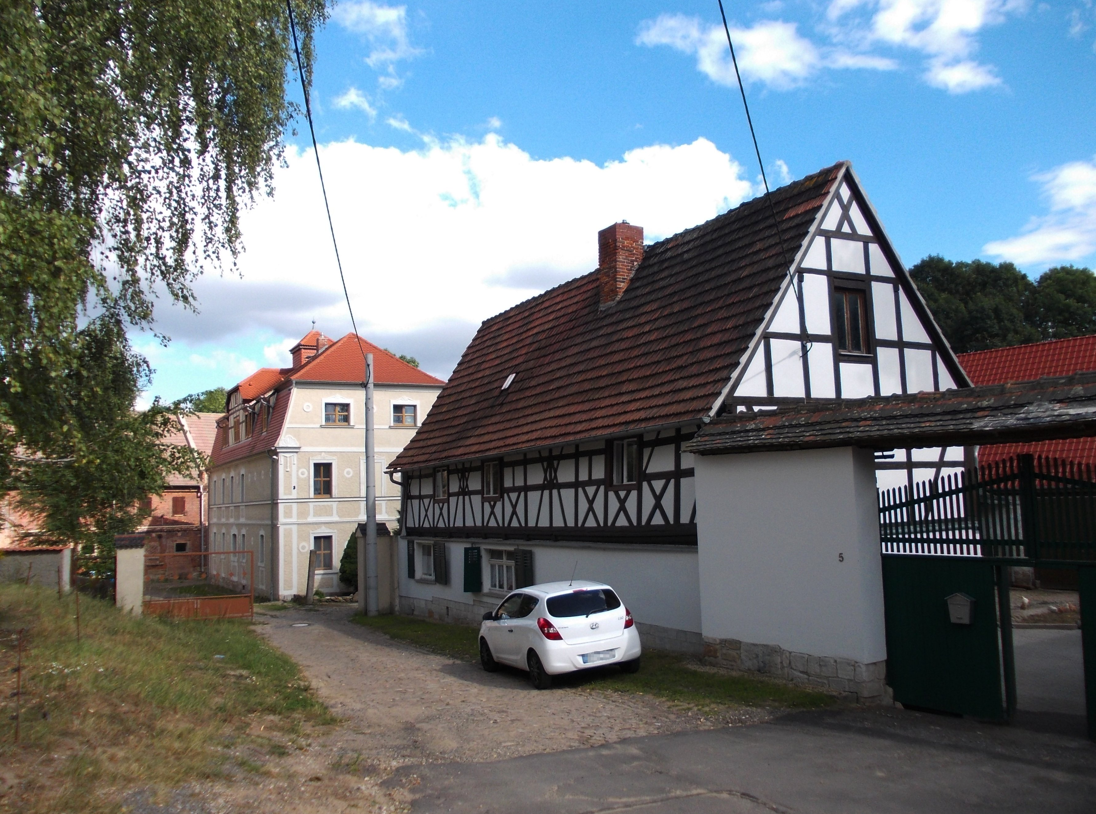 Half-timbered house and manor house in Kostplatz (Krauschwitz subdivision of the town of Teuchern)